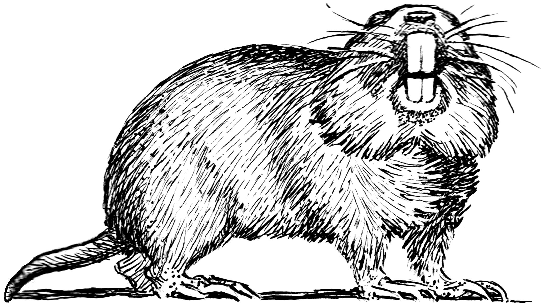 Line art drawing of a gopher.